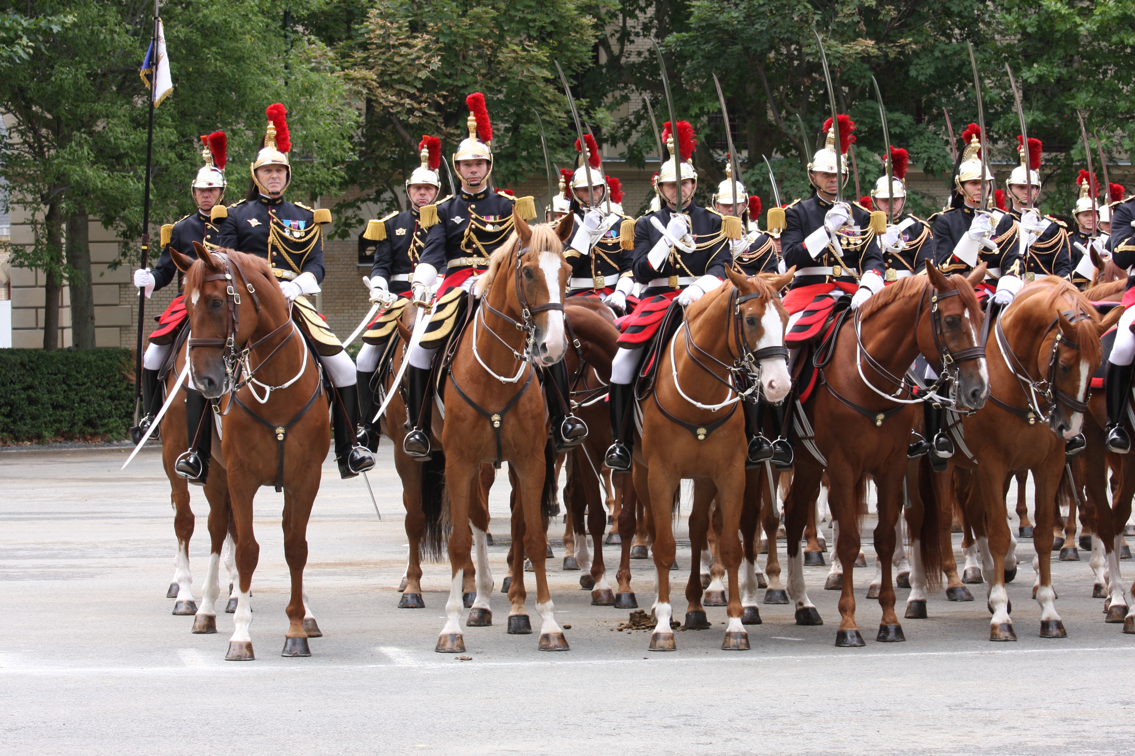 Squadron of the garde républicaine on Bastille day 2012